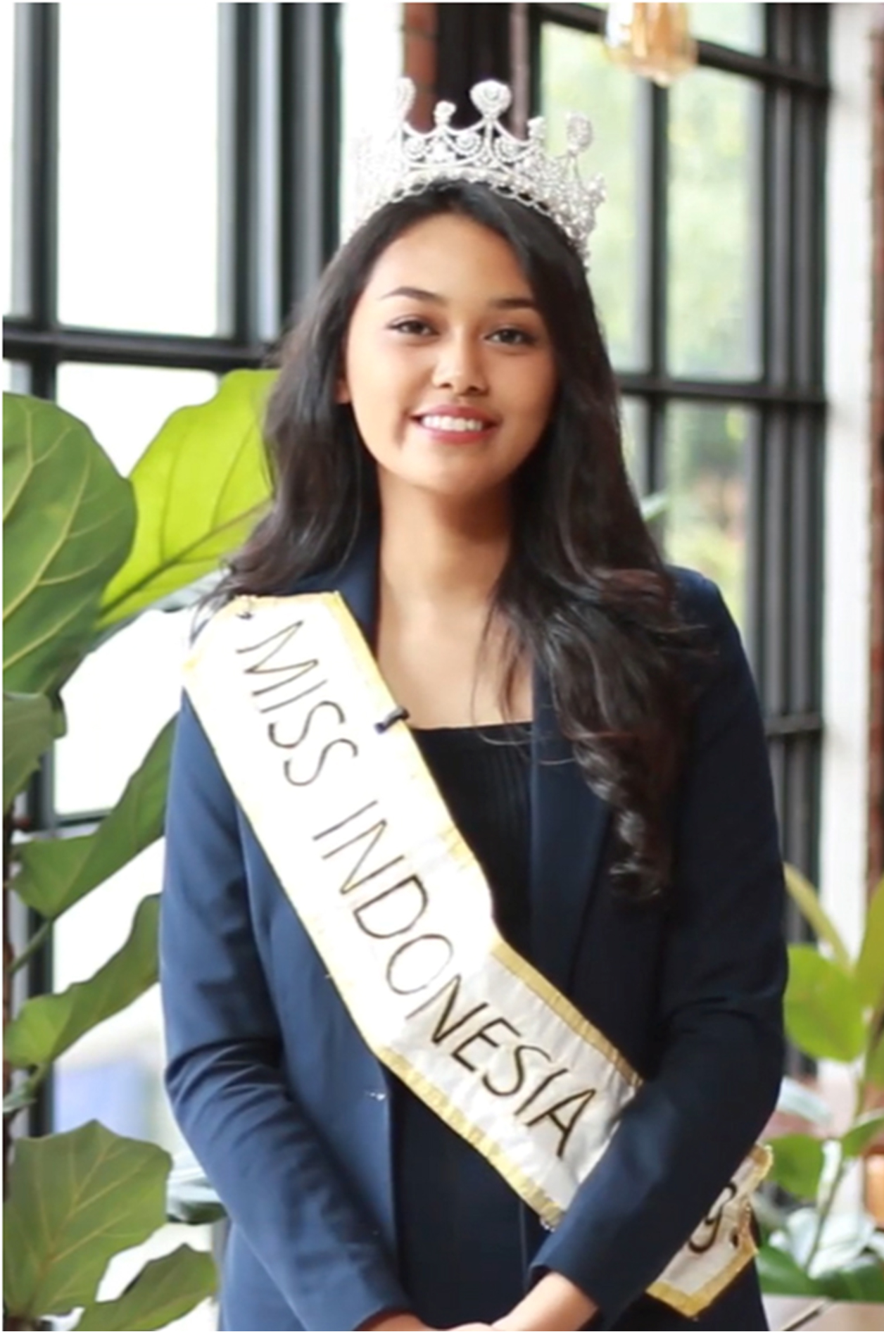 MISS INDONESIA 2019 PRINCESS MEGONONDO GOES TO MISS WORLD 2019